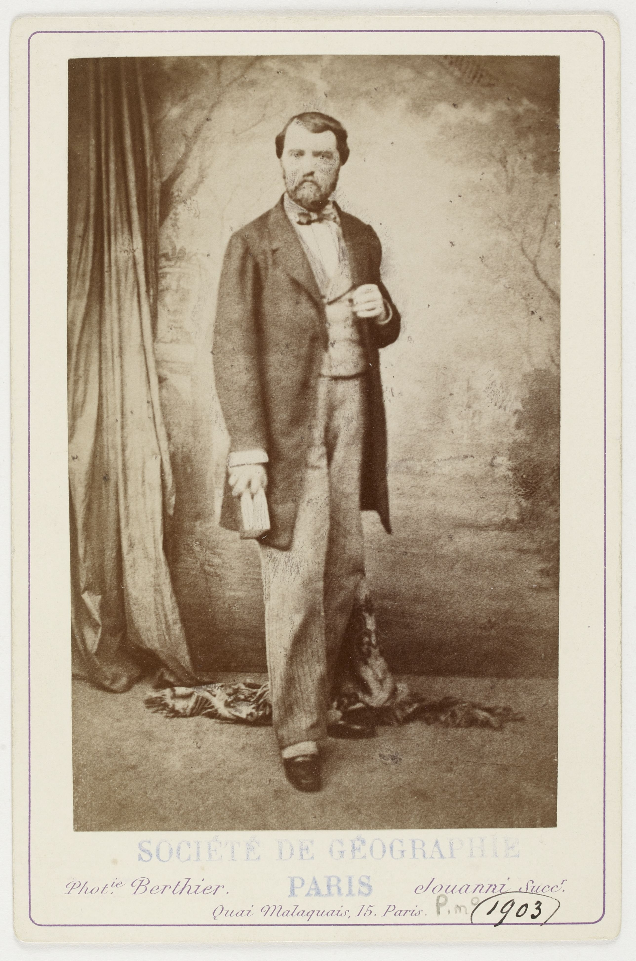 Charles Auguste Ferdinand Tugnot de Lanoye